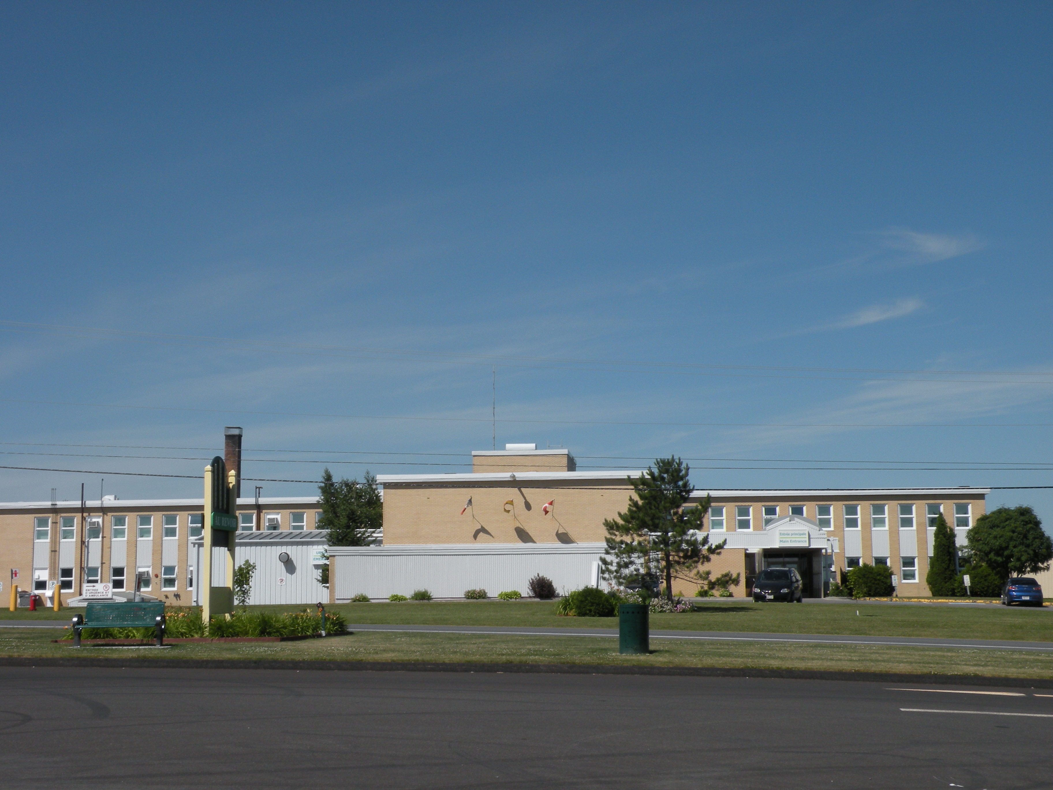 Hôtel-Dieu St-Joseph in Saint-Quentin, New Brunswick, Canada.